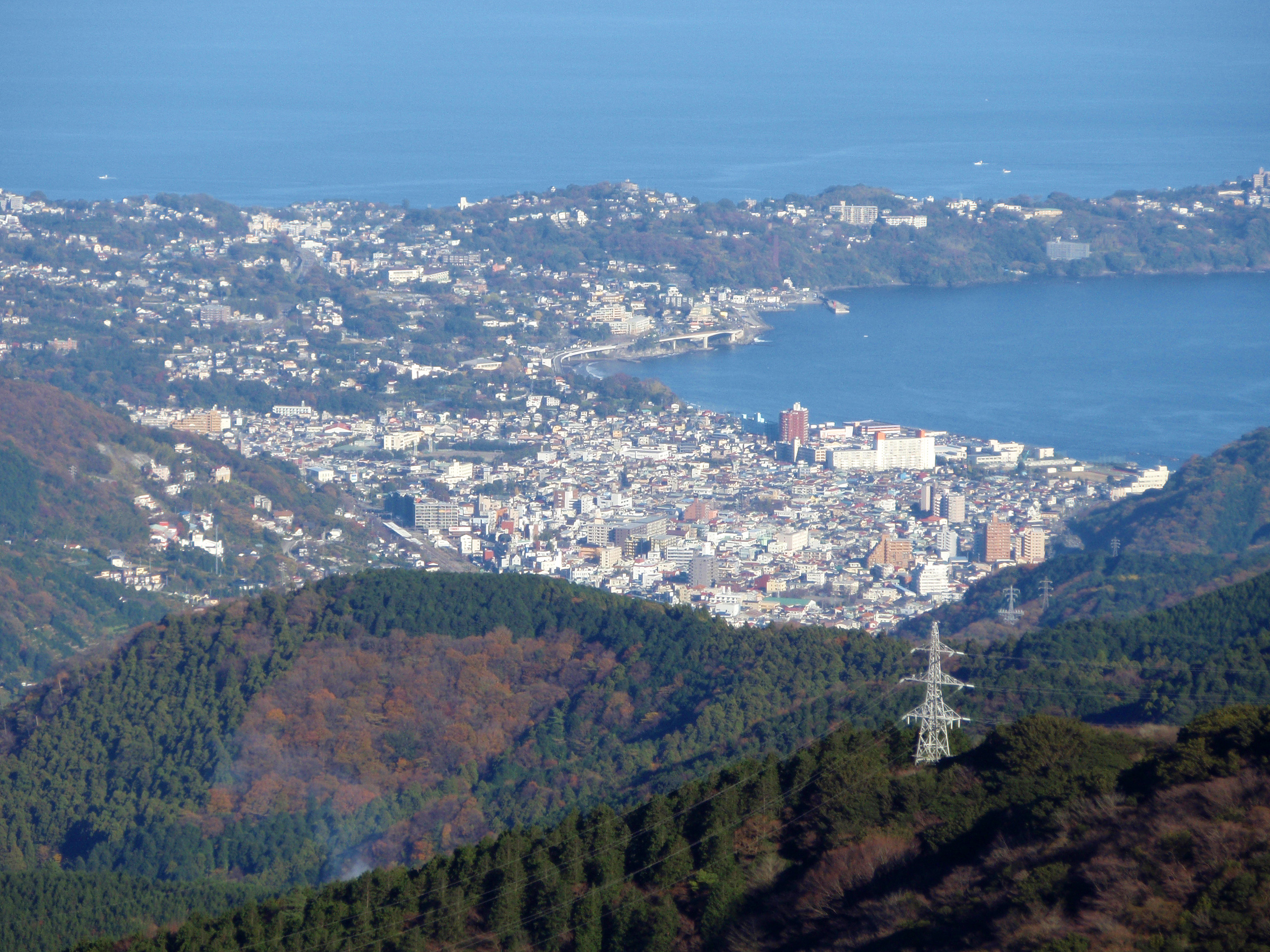 Manazuru and Yugawara as seen from the WSW. Shot at Jukkoku Pass.